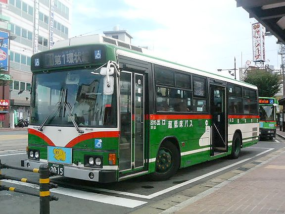 Kumamoto City Municipal Bus. See below.